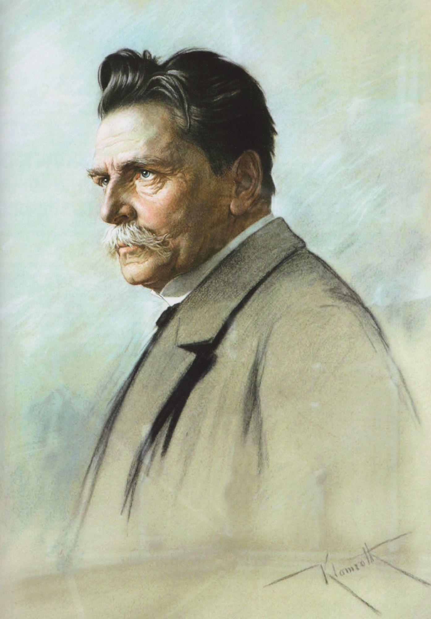 The portrait of German legal scholar Adolf Wach (1843—1926)